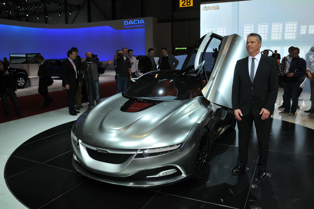 Saab PhoeniX at the 2011 Geneva Motor Show